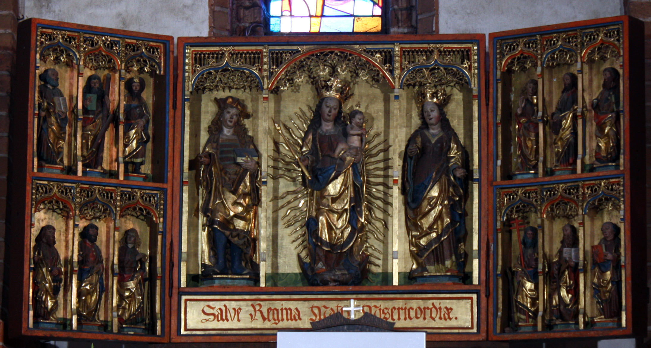 Bazylika konkatedralna św. Jakuba w Olsztynie. This photo of Warmian-Masurian Voivodeship was taken during Wikiexpedition 2012 set up by Wikimedia Polska Association. You can see all photographs in category Wikiekspedycja 2012. The making of this document was supported by Wikimedia Polska.